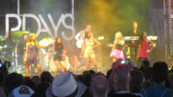 British pop group The Saturdays at V Festival 2009